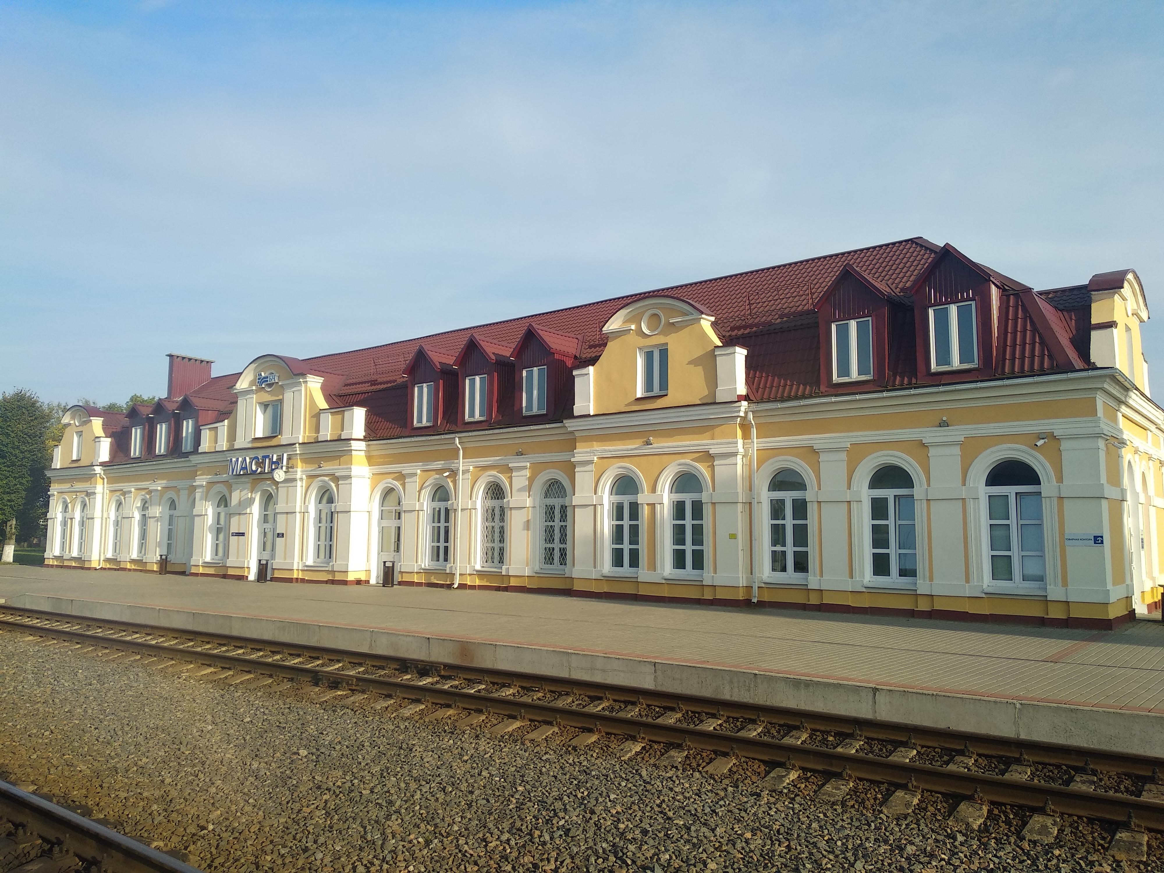 railroad station in Belarus